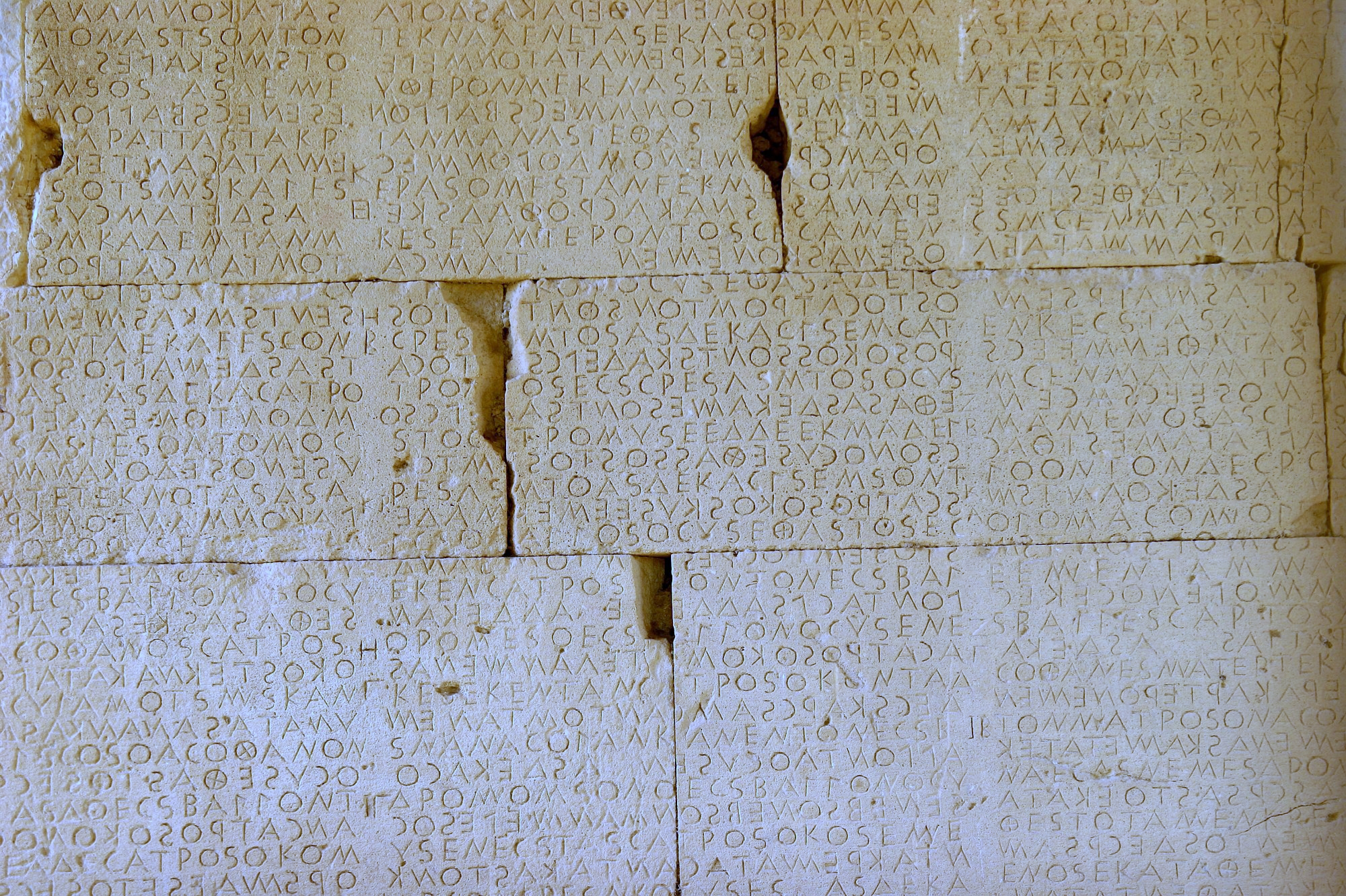 Ancient greek law code at Gortys, Crete